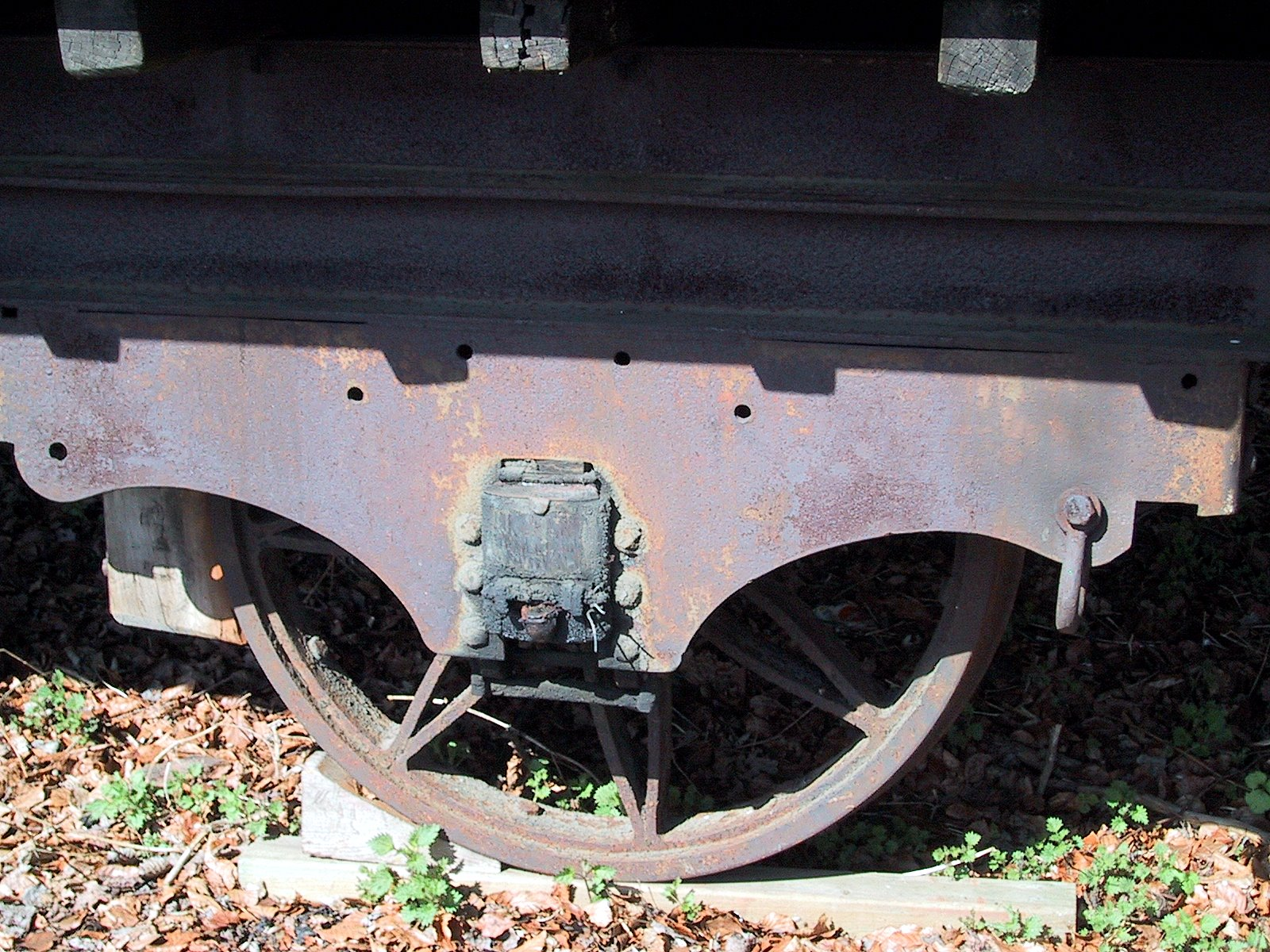 Axle box of Swiss Northern Railway car